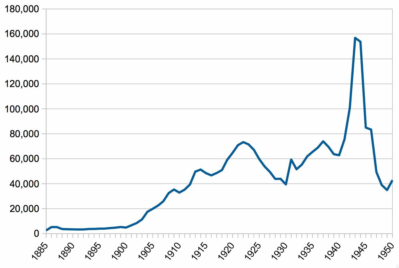 derived from 'Statements of Revenue and Expenditure of each Station' for each year